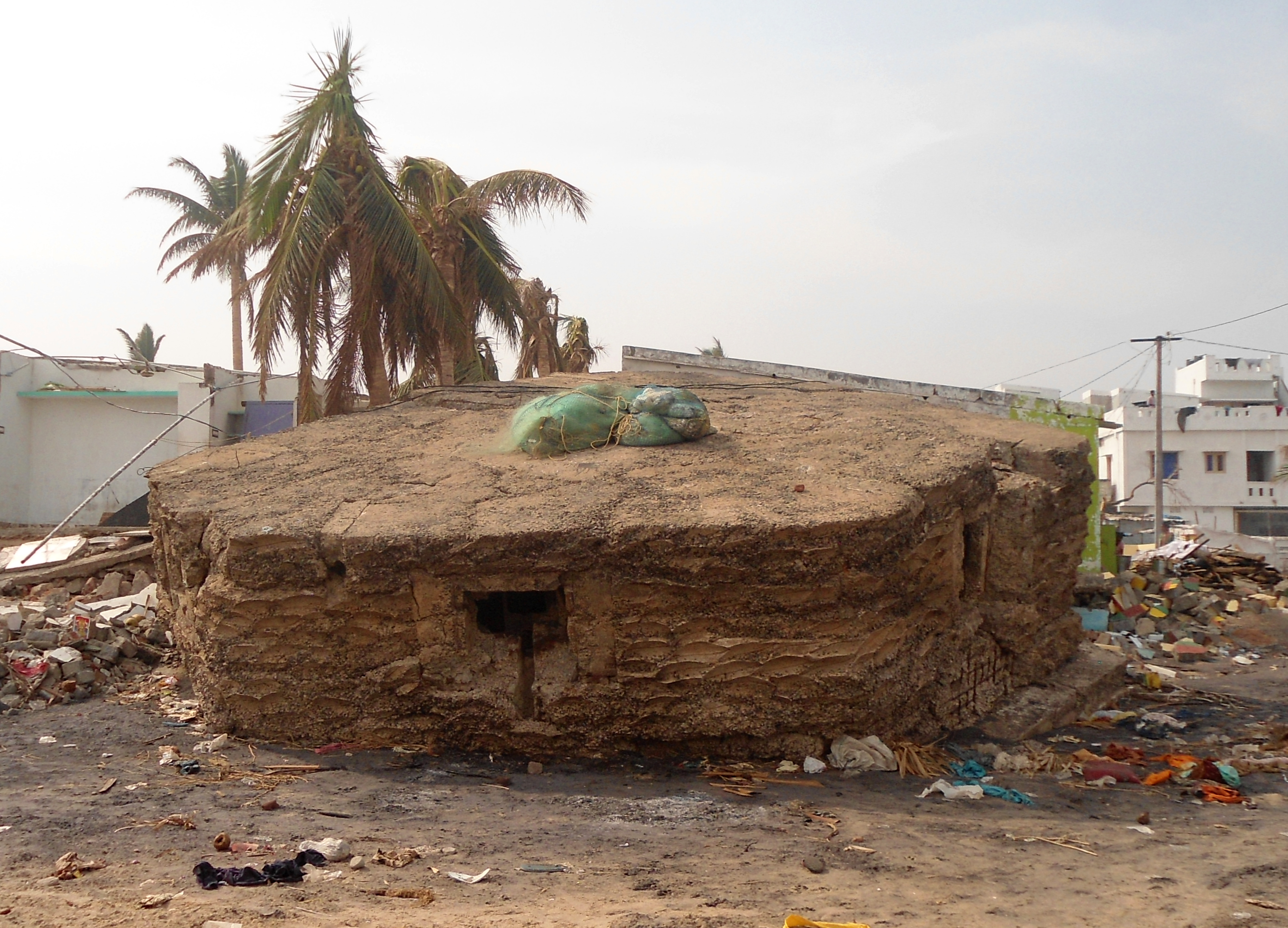 A World war II Bunker washed away at Jalaripeta in Visakhapatnam Lawsons Bay Crescent beach after cyclone Hudhud in October 2014